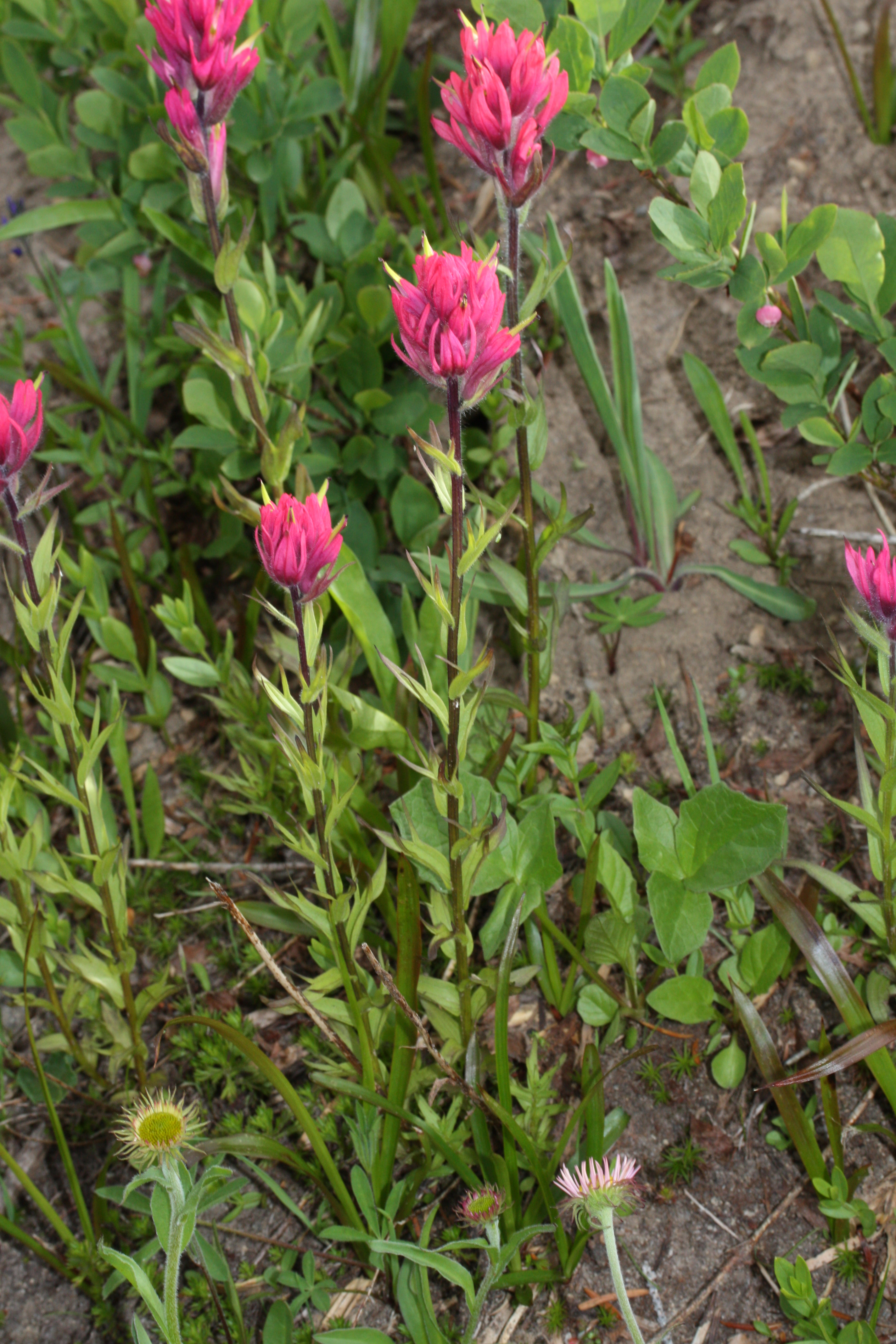 Magenta Paintbrush